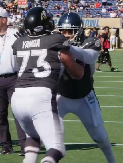 Marshall Yanda in 2020